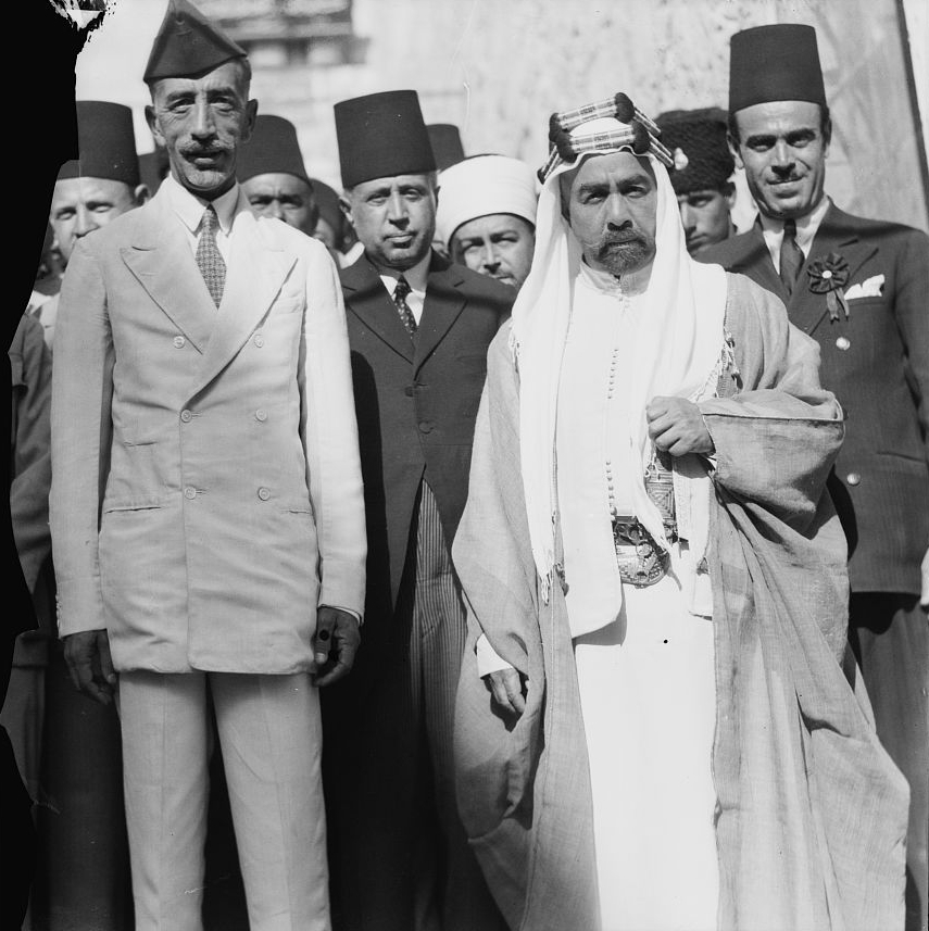 King Feisal of Iraq, his last visit to Jerusalem before his European tour during which he died, and King Abdullah I of Jordan.